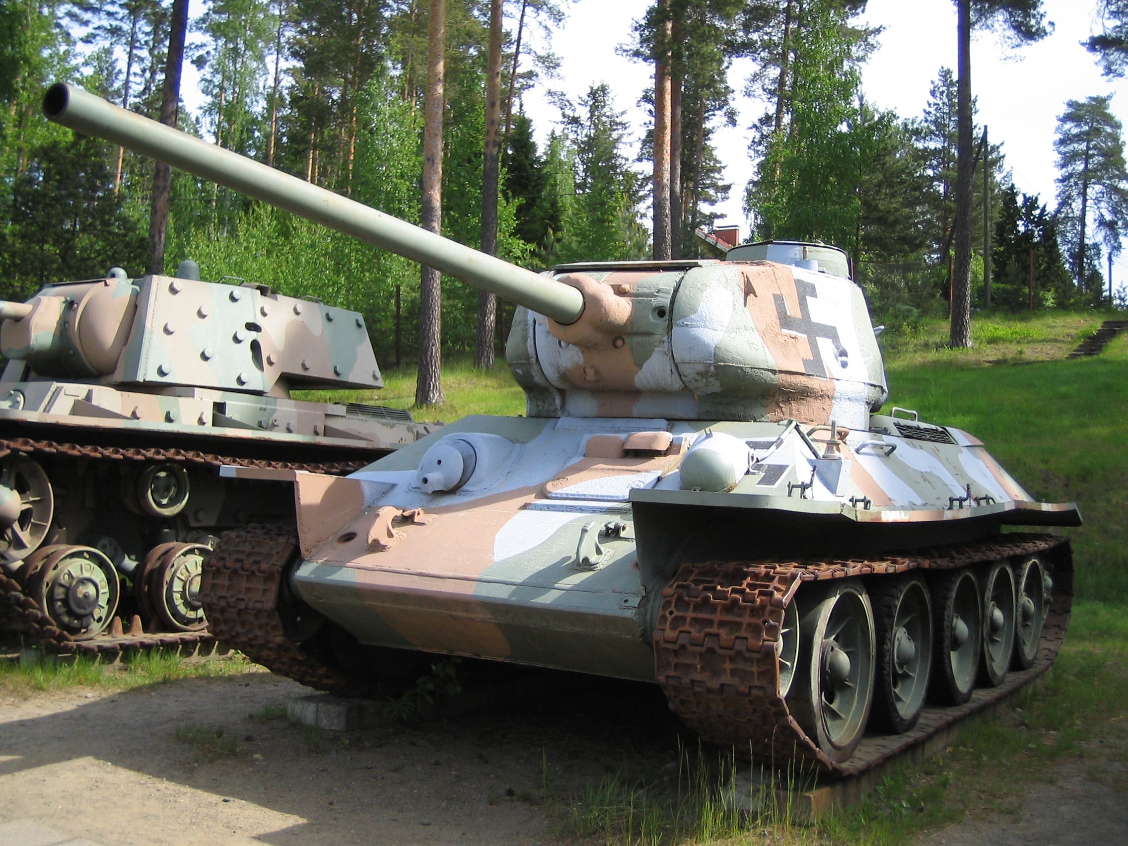 T-34-85 in Parola tank museum